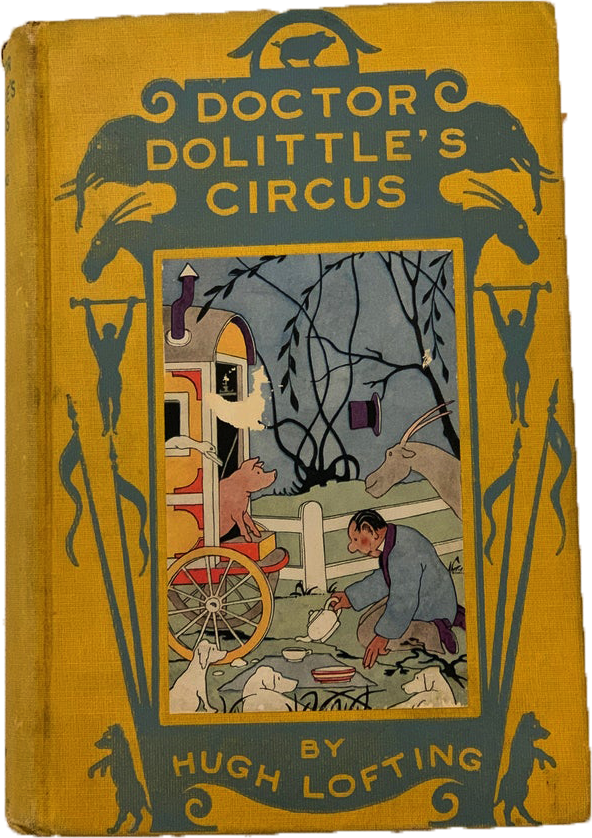 Doctor Doolittle's Circus (first edition, 1924)